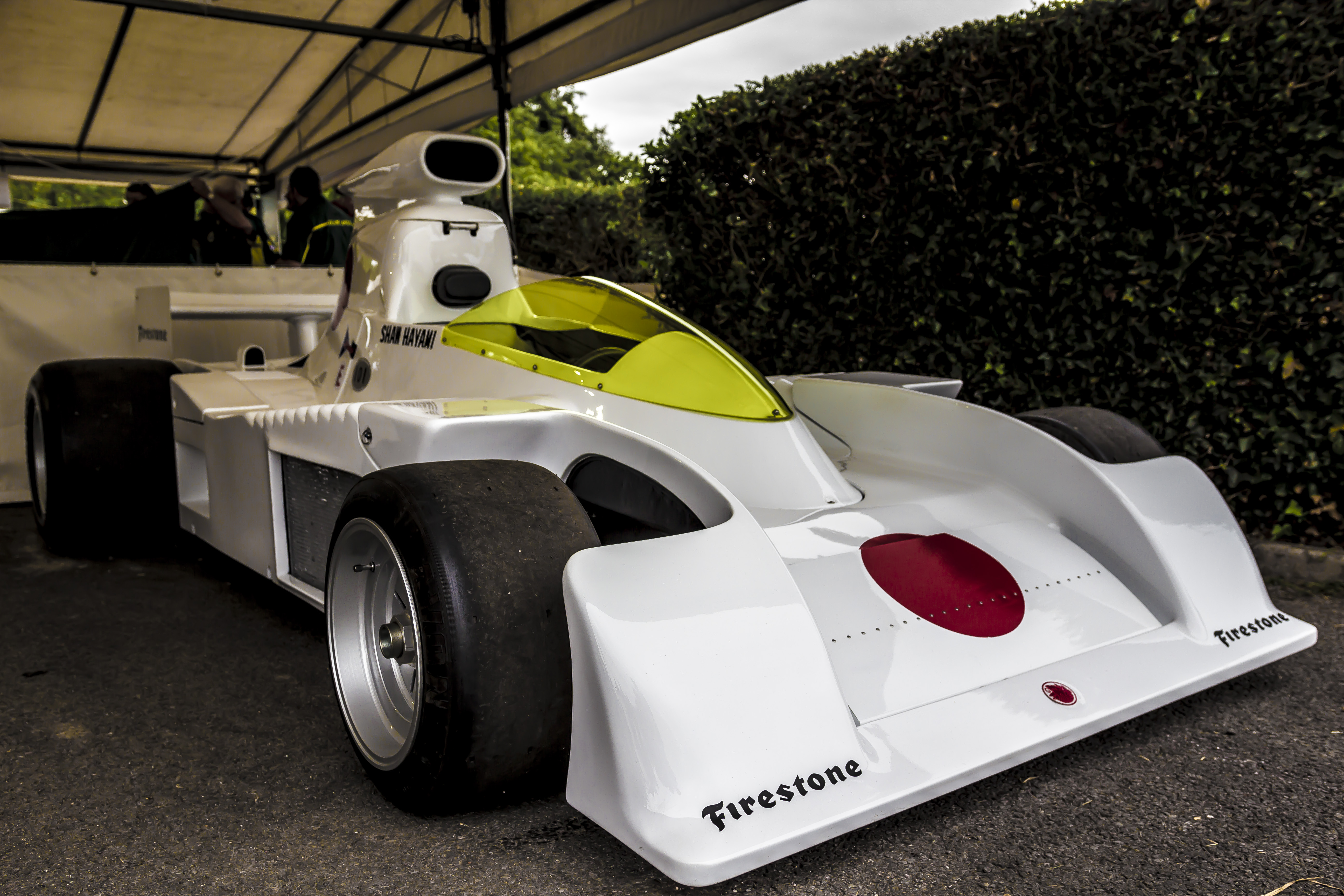 1974 Maki F101 of Howden Ganley